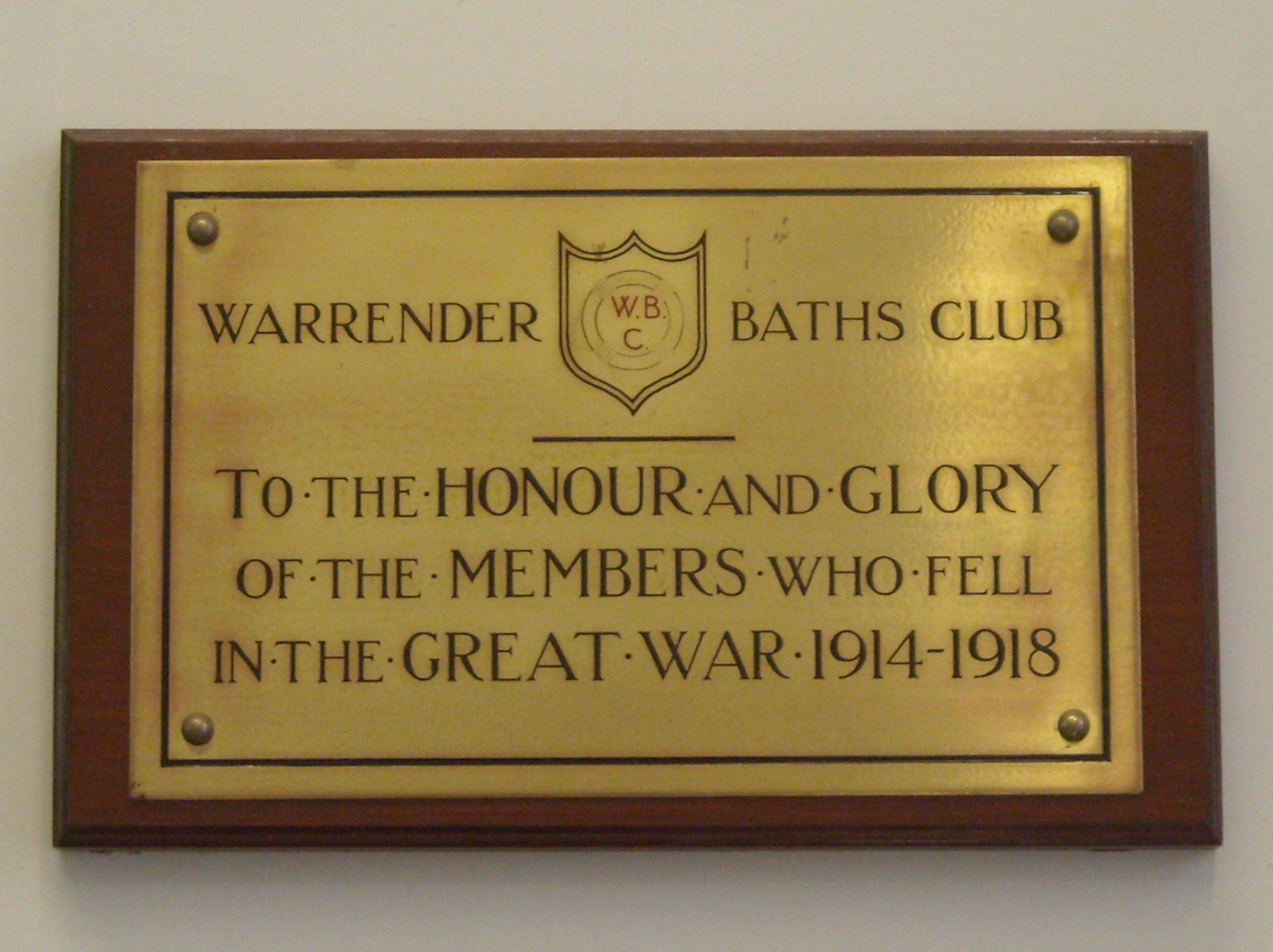 Warrender Baths Club War Memorial, Warrender Park Swimming Pool, Edinburgh